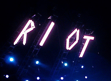 Paramore MN State Fair August 2008